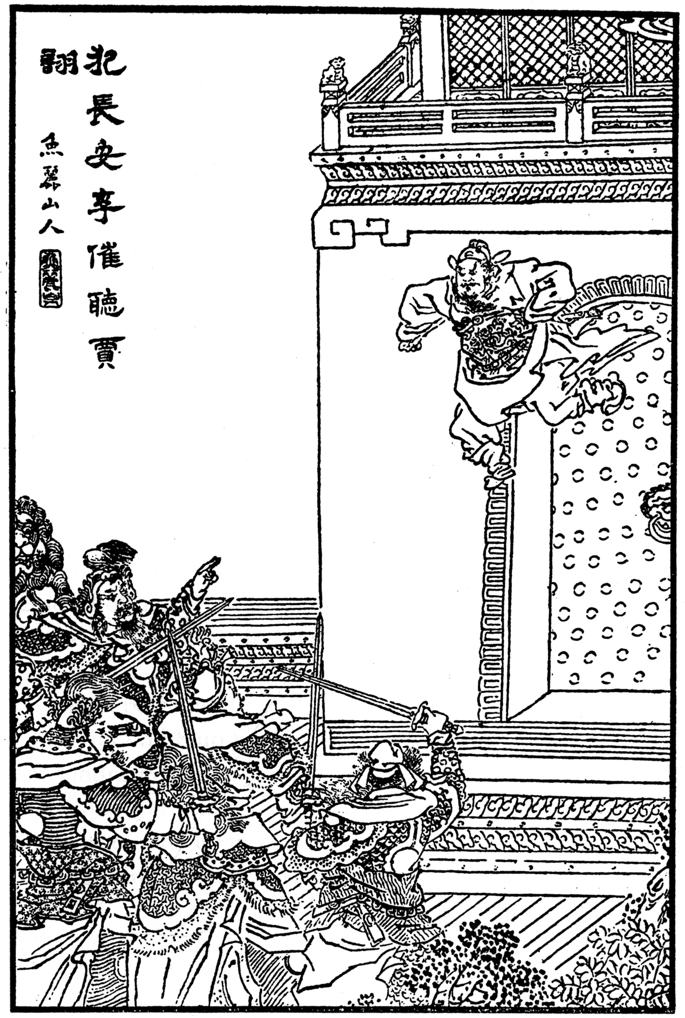 To save the Emperor, Wang Yun jumps from the city gate and gives himself to the rebel leaders Li Jue and Guo Si.